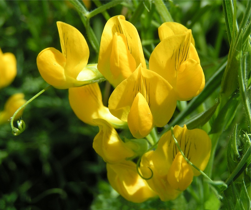 Meadow vetchling (Lathyrus pratensis).